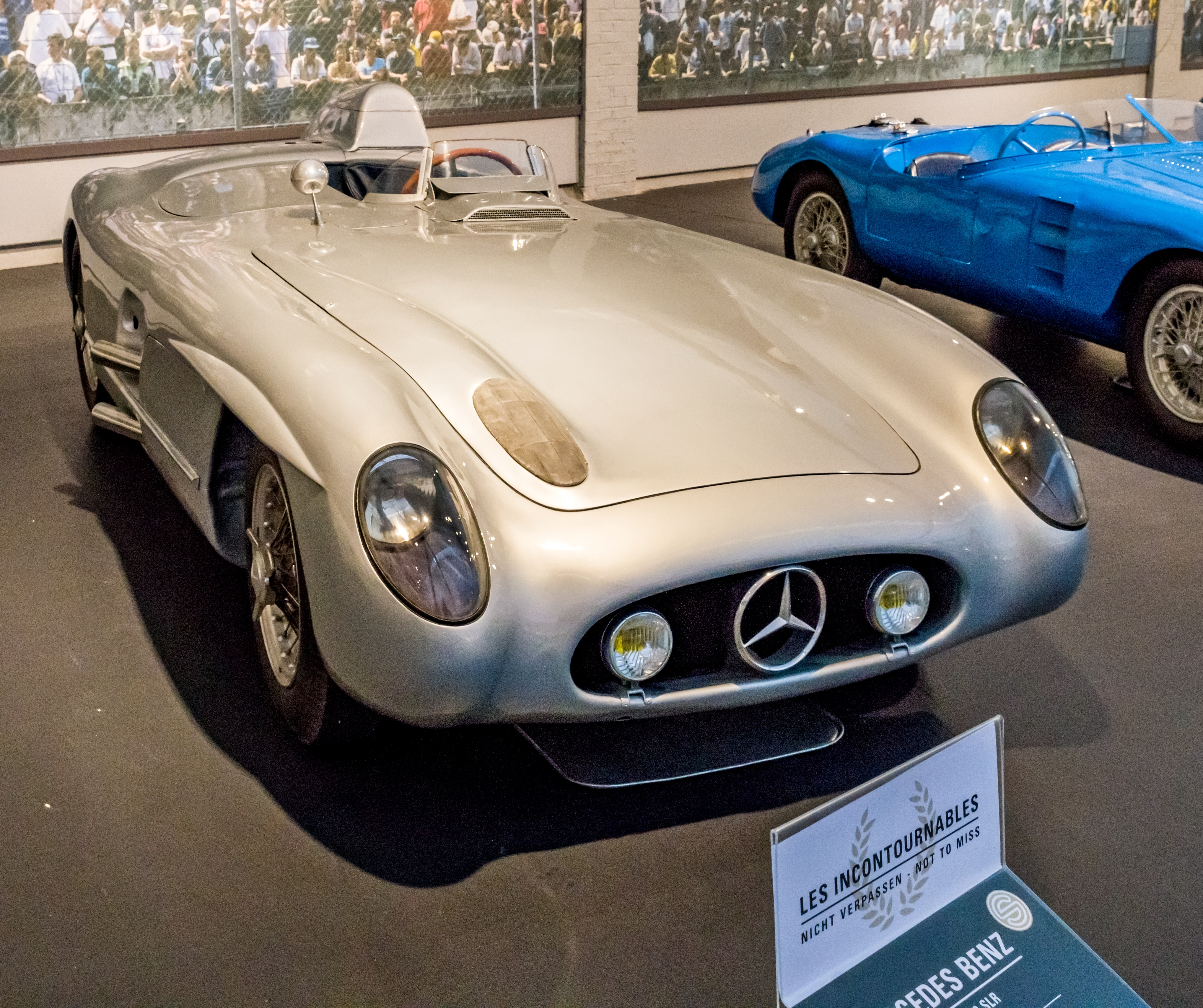 pictures from the Cité de l’Automobile – Musée National – Collection Schlump in Mulhouse, France ptictures from the 10. may 2018